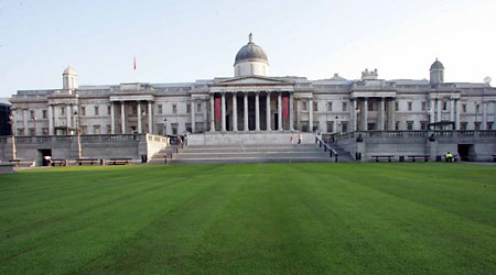 Taken in May 2007.